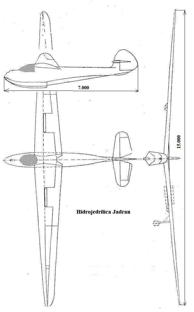 Yugoslav Hidro Glider Jadran